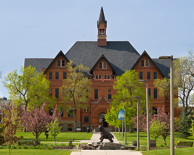 Looking south on the campus of Montana State University in Bozeman, Montana, USA. Montana Hall sits in the background with Alumni Plaza and a bronze sculpture of Spirit the Bobcat in the foreground. Photo by Kelly Gorham